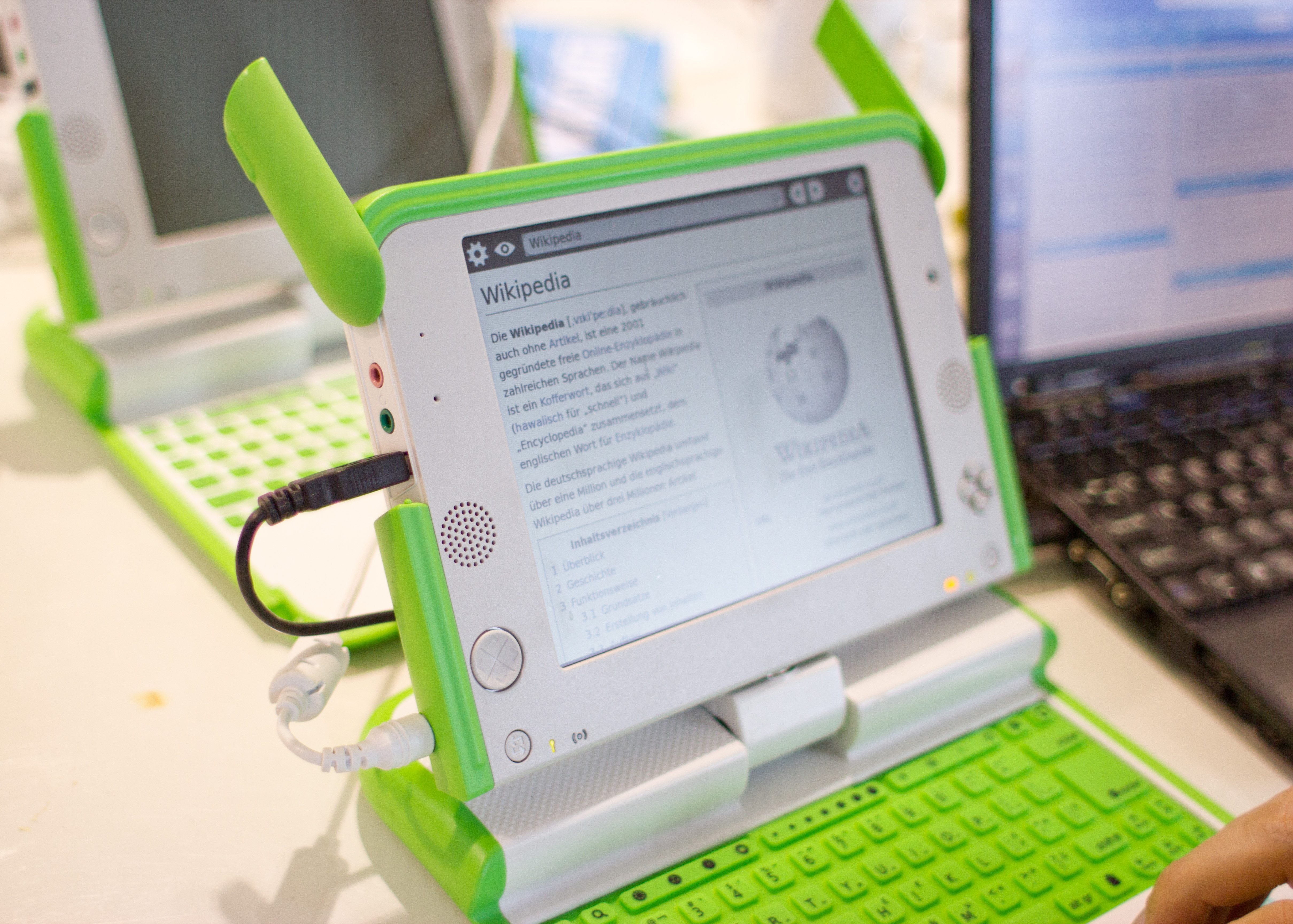 OLPC XO running Kiwix at the Berlin Hackathon 2012